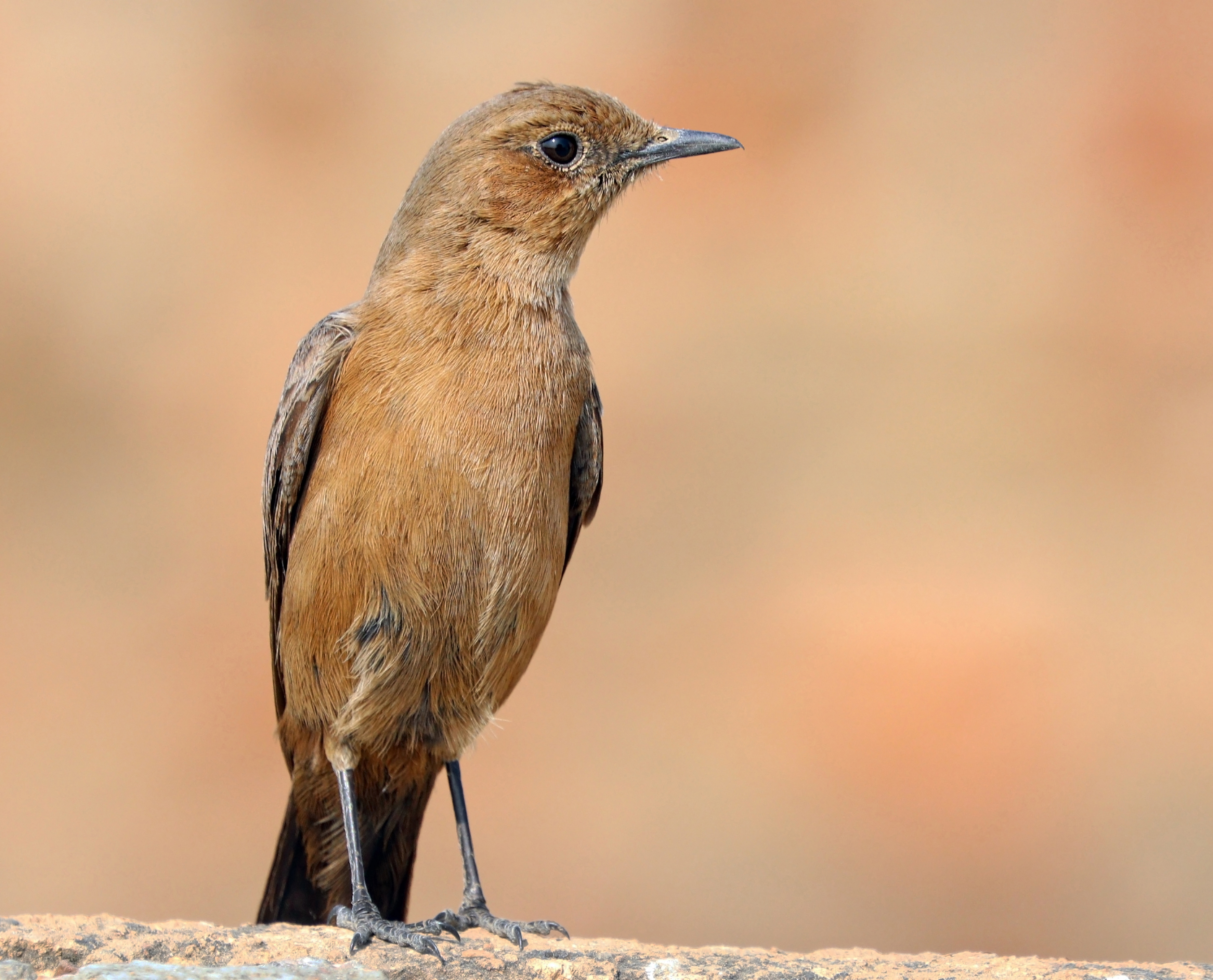 Brown rock chat (Oenanthe fusca), Bateshwar Temples, UP, India